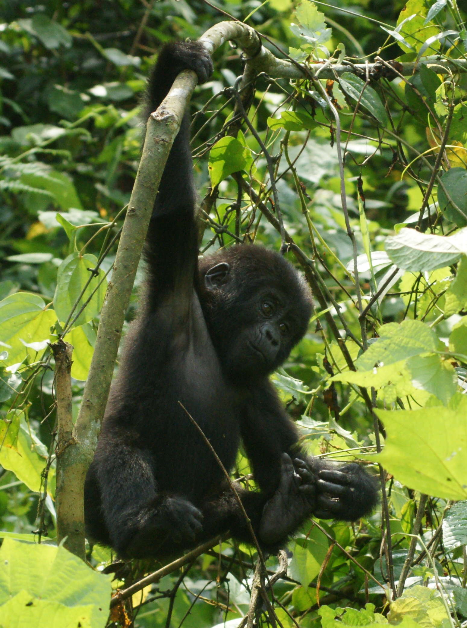 Gorilla Tracking - 23